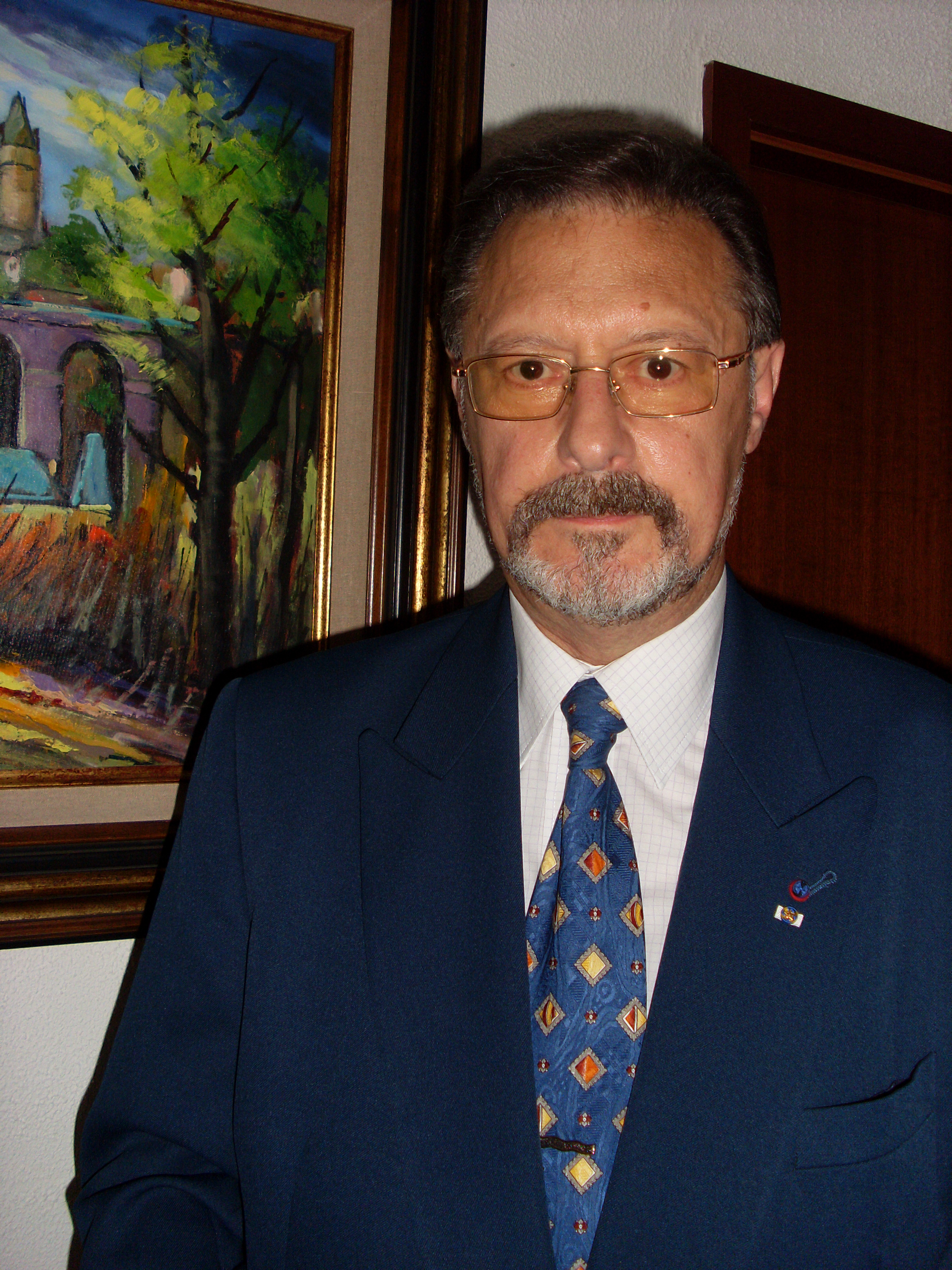 This is a self-portrait of me (Josy Linkels) taken by myself in a mirror